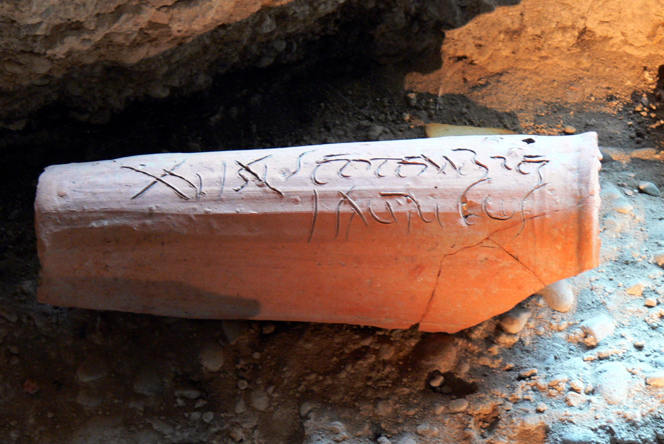 Wels ( Upper Austria ). City Museum Minoritenkloster - Roman department: Ancient Roman roof tile with latin inscription: XVI KALENDAS SEPTEMBRES ISAURICUS, the 16th day before the Kalends of September, a date that would translate on the Julian calendar to August 17 (August 15 on the pre-Julian Roman calendar), with the name Isauricus.